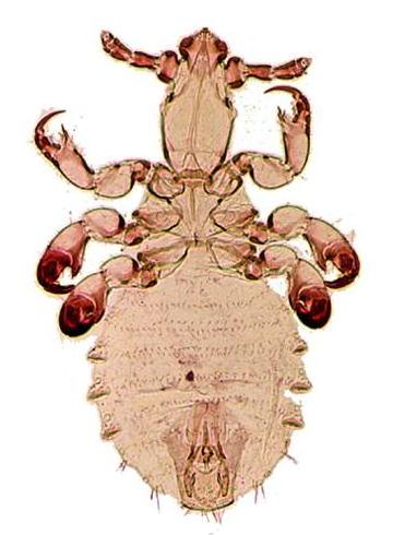 Pedicinus hamadryas under a light microscope